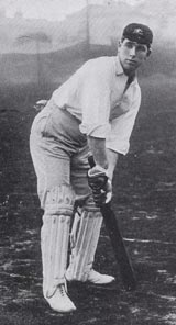 Clem Hill demonstrating his batting stance